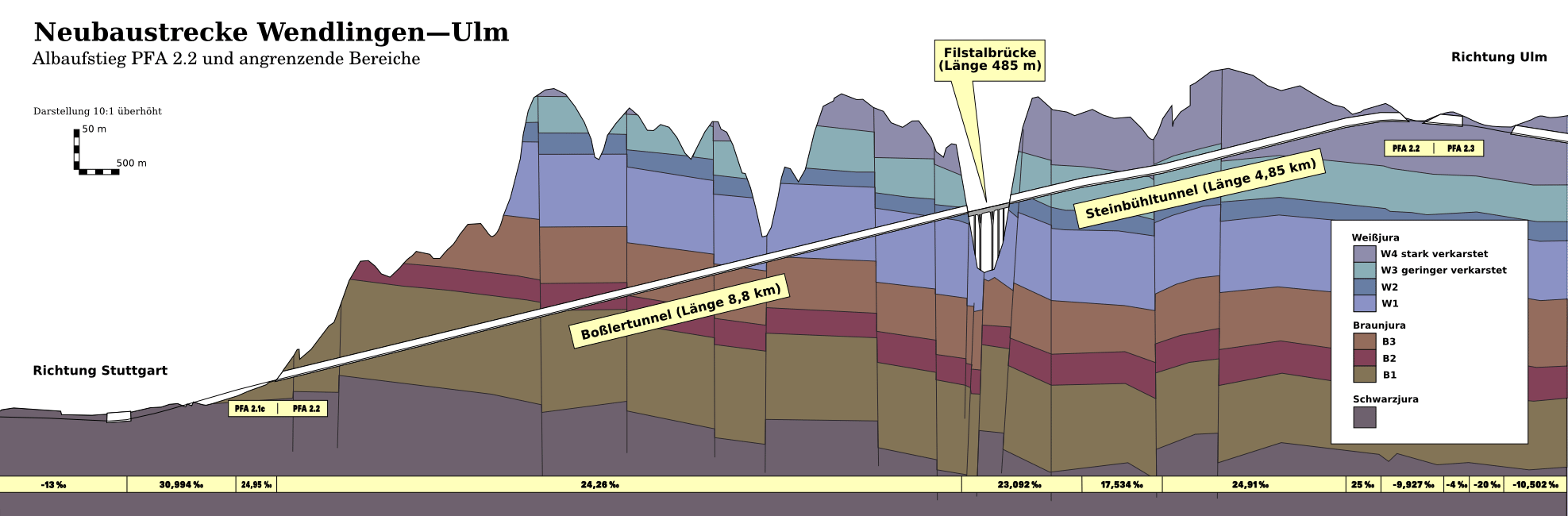 Elevation plan of the planned high speed rail in Germany from Wendlingen to Ulm, section PFA 2.2. It is based on official files of German Rail DB, the geological informations were taken from a paper shown by Prof. Walter Wittke during arbitration session 11/20/2010.